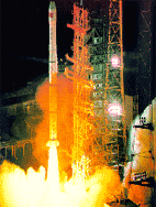 Chinese launch vehicle Long March 3A during launch